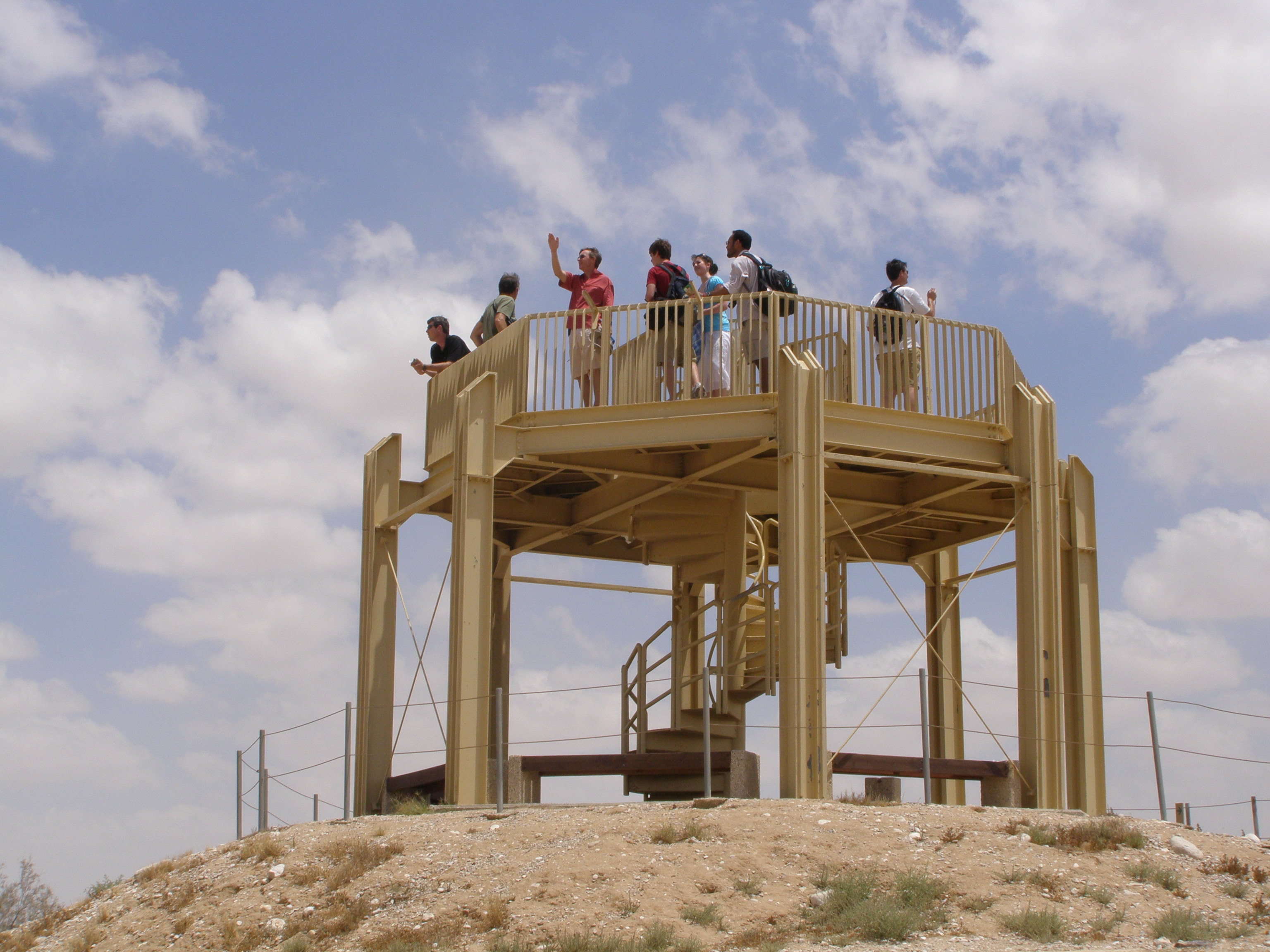 Tel Be'er Sheva